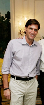 Mike Greenberg at the White House with his radio partner Mike Golic (cropped out) and George W. Bush (also cropped out)